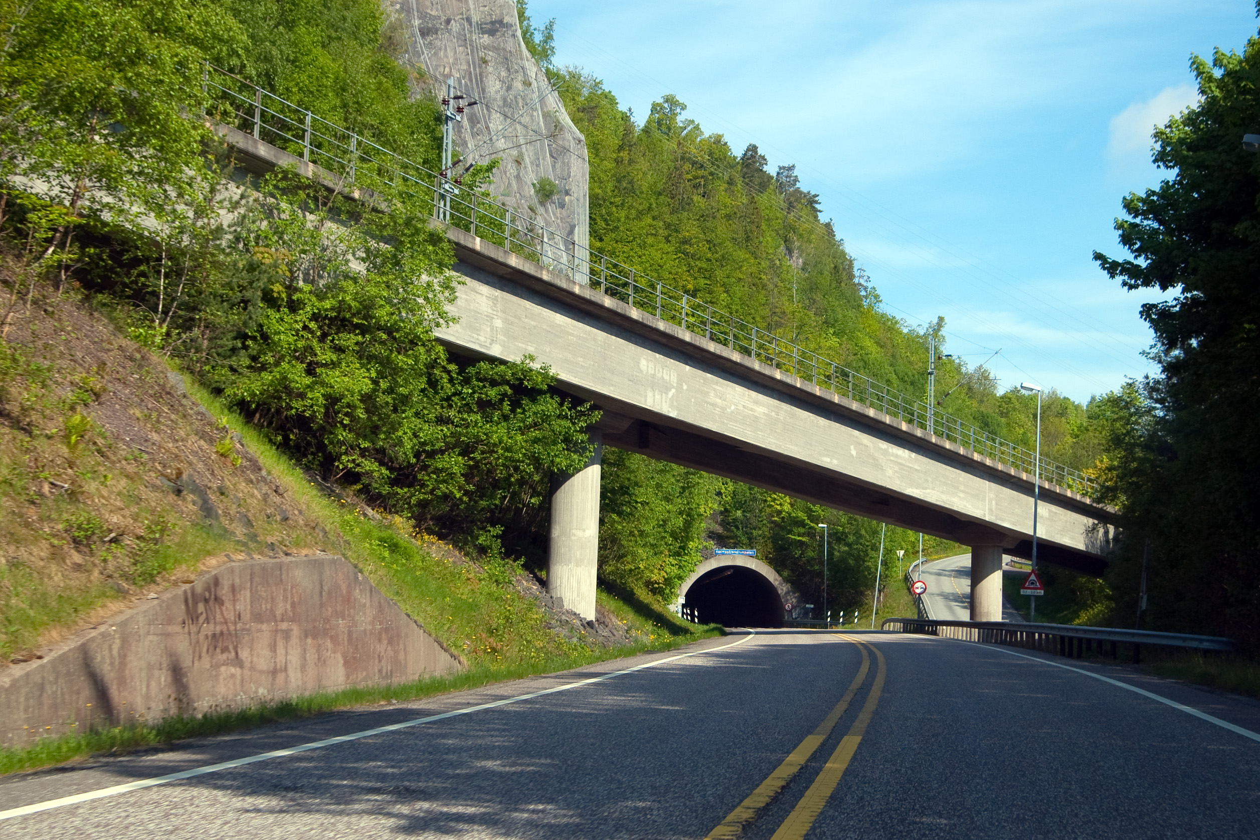 The south entrance of the Holmestrand tunnel on county road 313 in Holmestrand, Vestfold, Norway. The railroad bridge in front is part of the Vestfold Line.